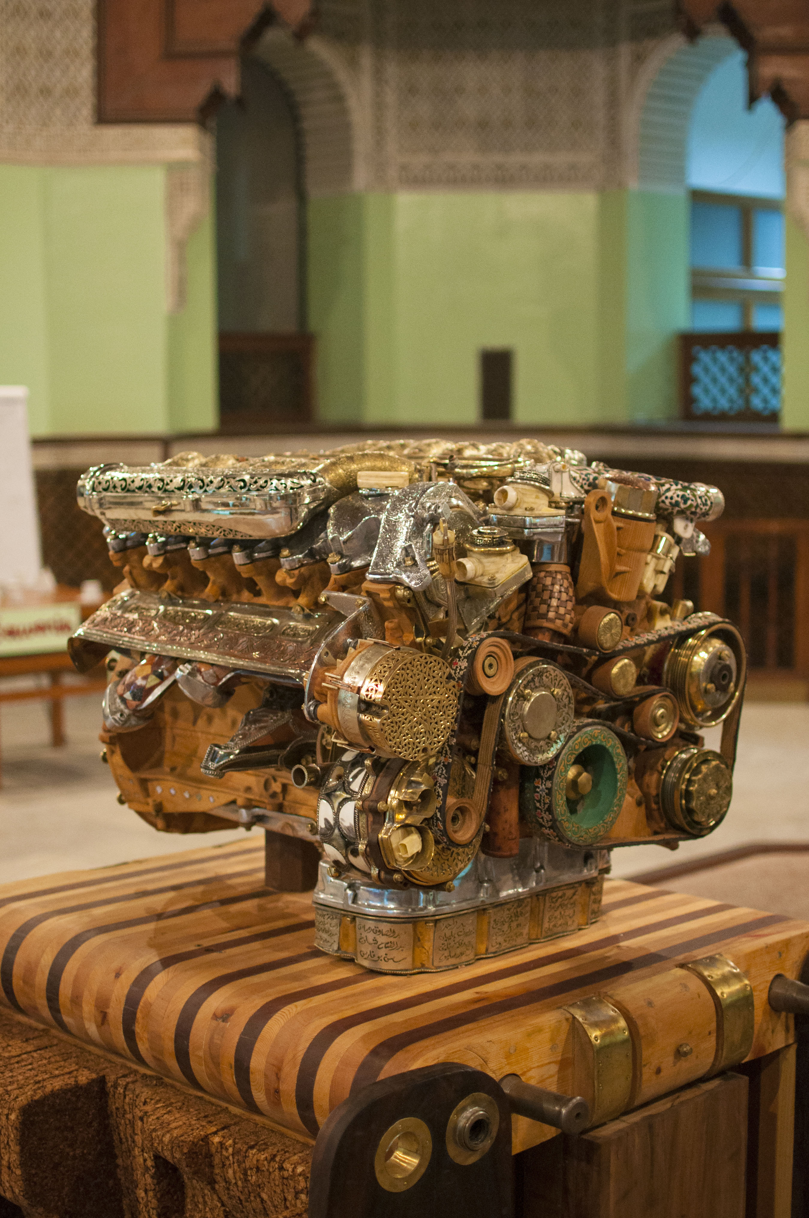 v12 laraki, in Bank Almaghrib, by artist Eric Van Hove, for MB5